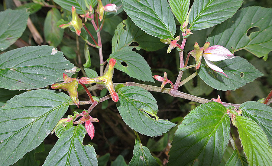 From the El Dorado Reserve, northeastern Colombia, showing the three-flanged seed pods. In context at